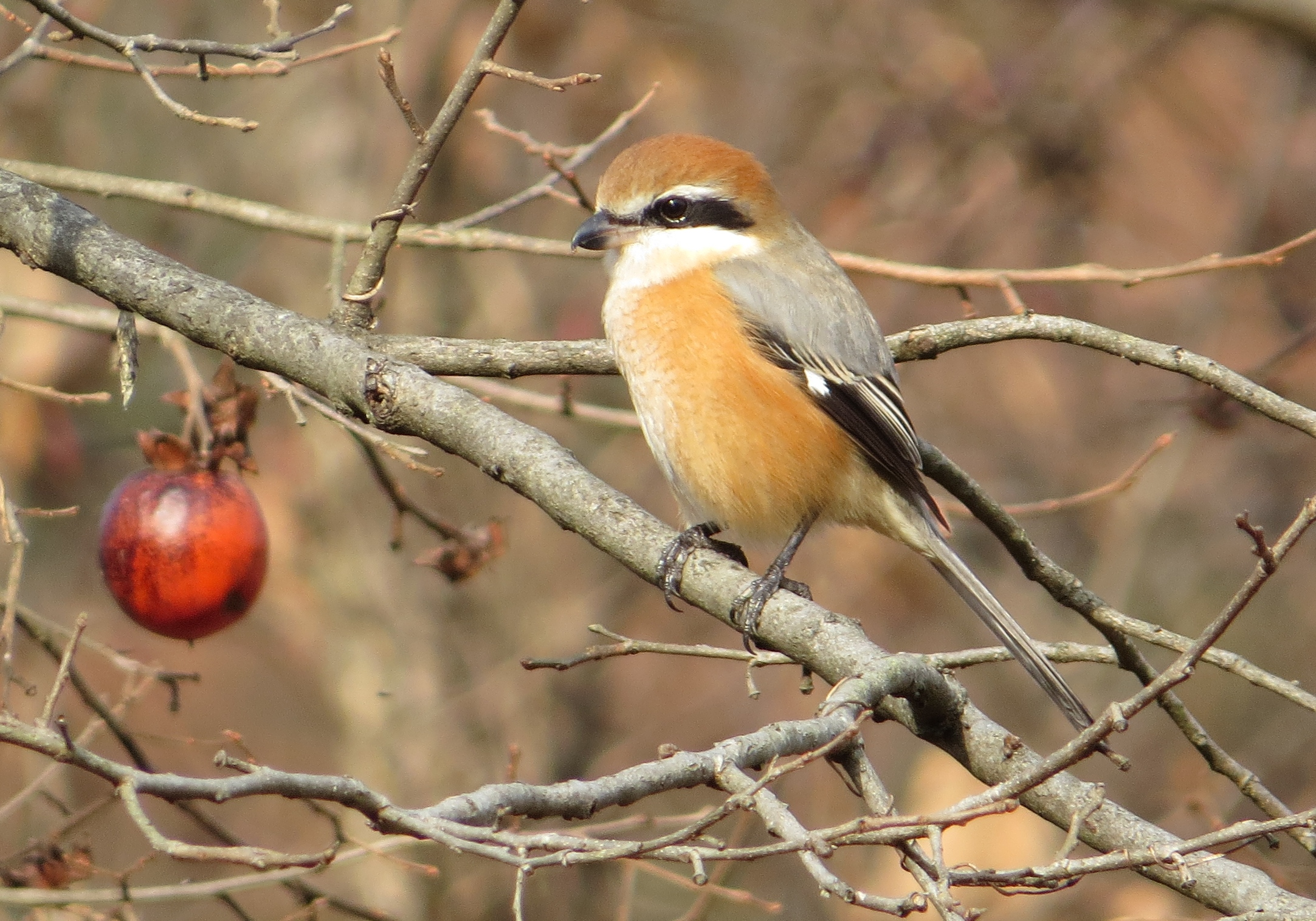 Bull-headed shrike (Lanius bucephalus), male in Aichi prefecture, Japan.